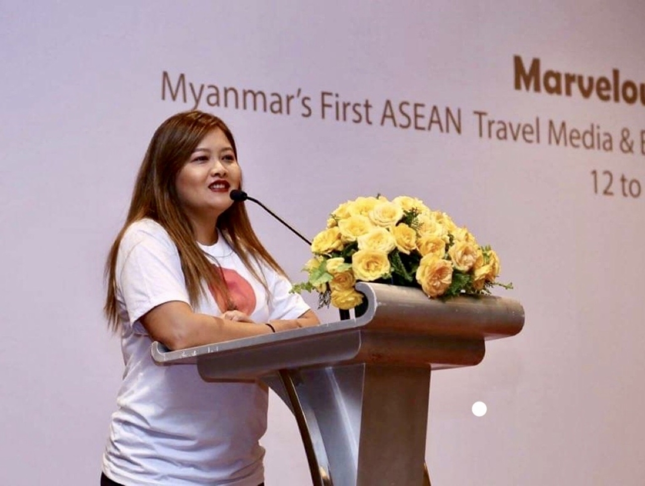 Famous Burmese travel blogger